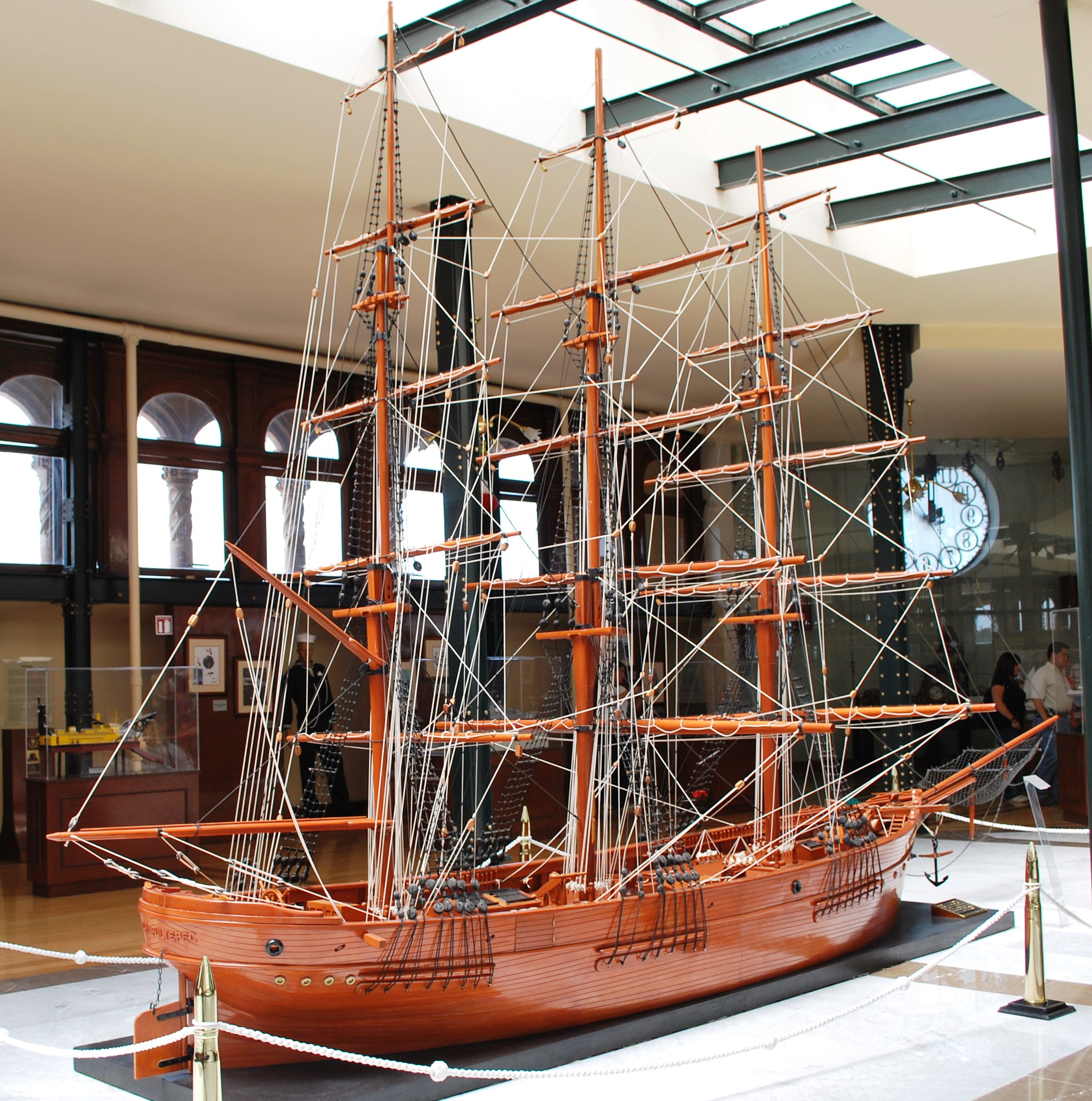 Model of a ship at the Naval History Museum in Mexico City